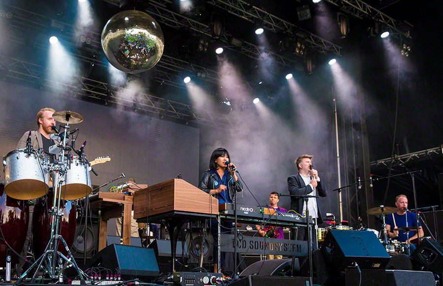 LCD Soundsystem performs at Quart Festival in Kristiansand on 28. June 2016. Lineup:James Murphy (vocal)Nancy Whang (keyboard)